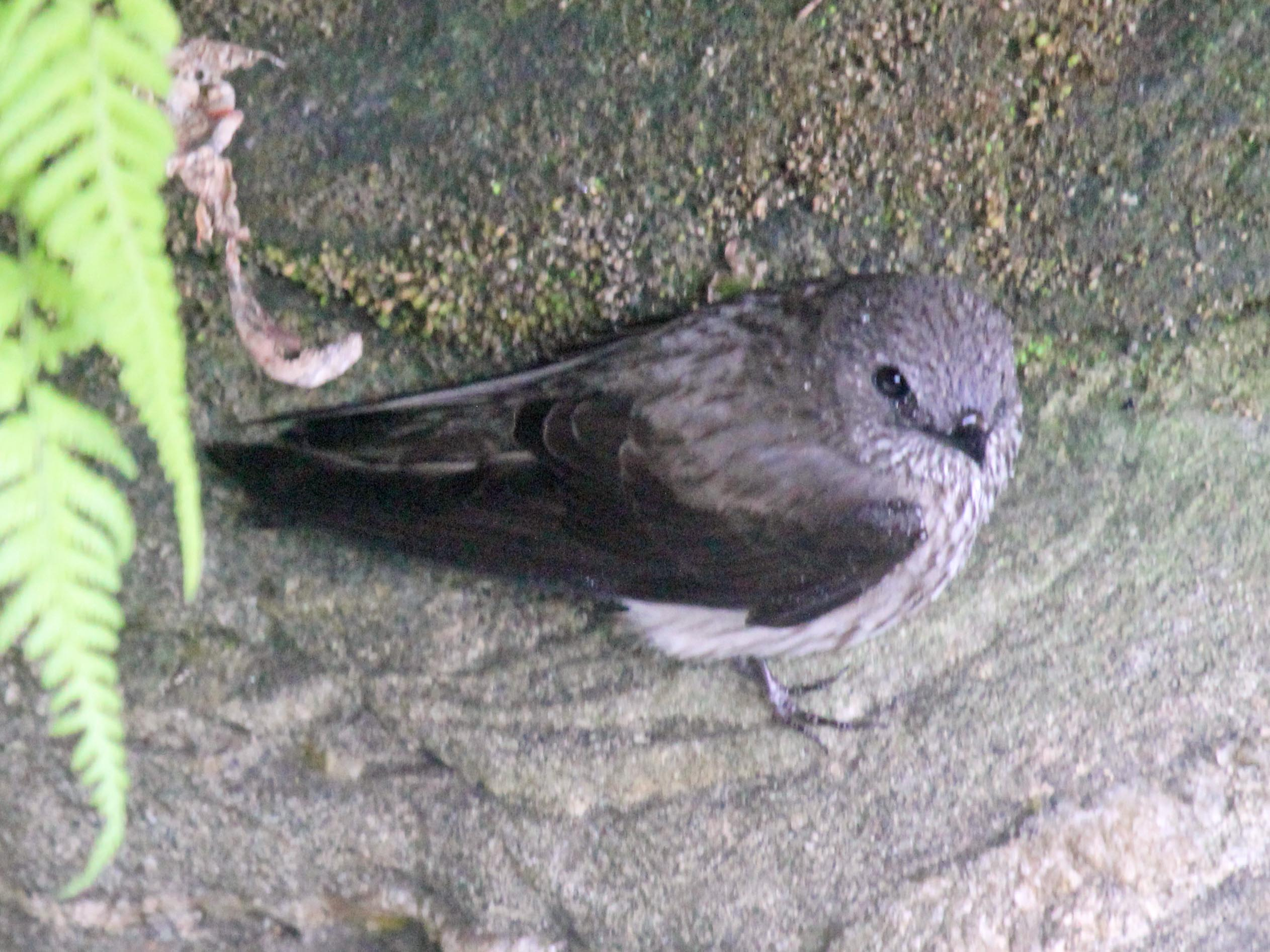 Mascarene Martin (Phedina borbonica) - Ranomafana, Madagascar